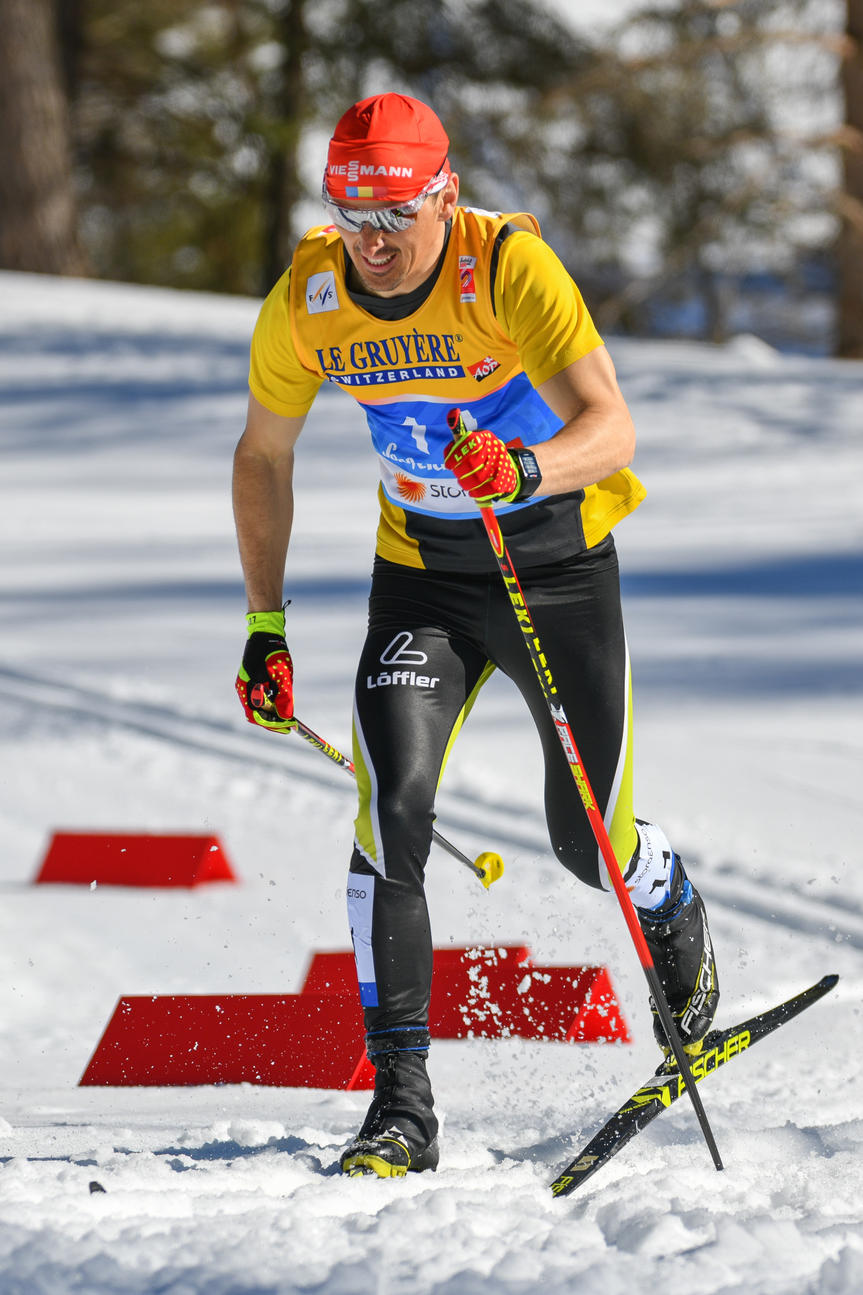 FIS Nordic Wolrd Ski Championships Seefeld 2019 - Men 15km Interval Start Classic. Picture shows Paul Constantin Pepene (ROU).